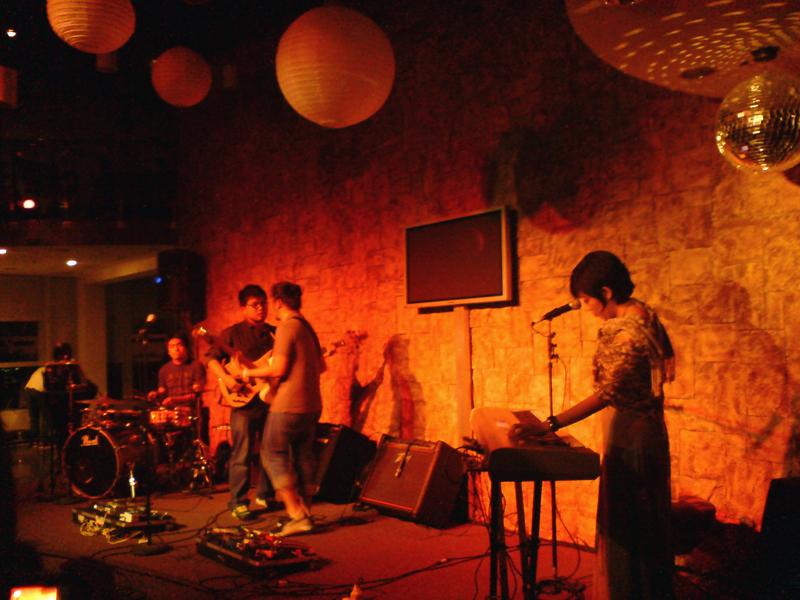 Watching my favorite band, Up dharma Down, live, is just pure bliss. It's been more than a year since I last watched them at this same venue at the Hexagon Lounge in RCBC Plaza in Makati where they had their 'Bipolar' album launch in 2008. Watching with my friends (Brent, Isa and Ericson) has made this experience memorable, too, as we shared the experience of their music.